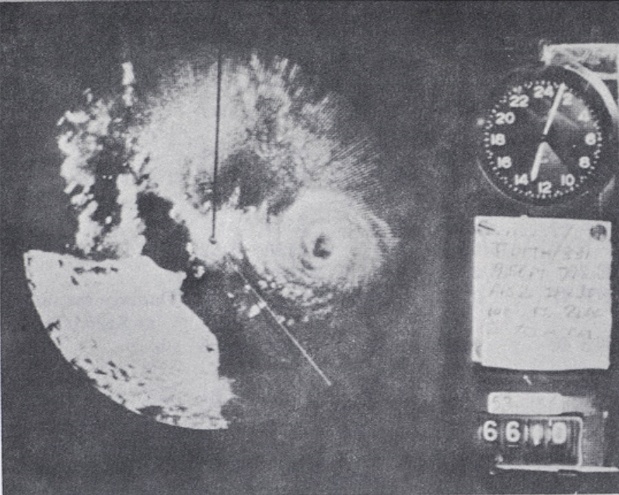 This is a radar image of Hurricane Edith near Central America. It was converted from pdf to jpg format. The pdf version is from here: [1]